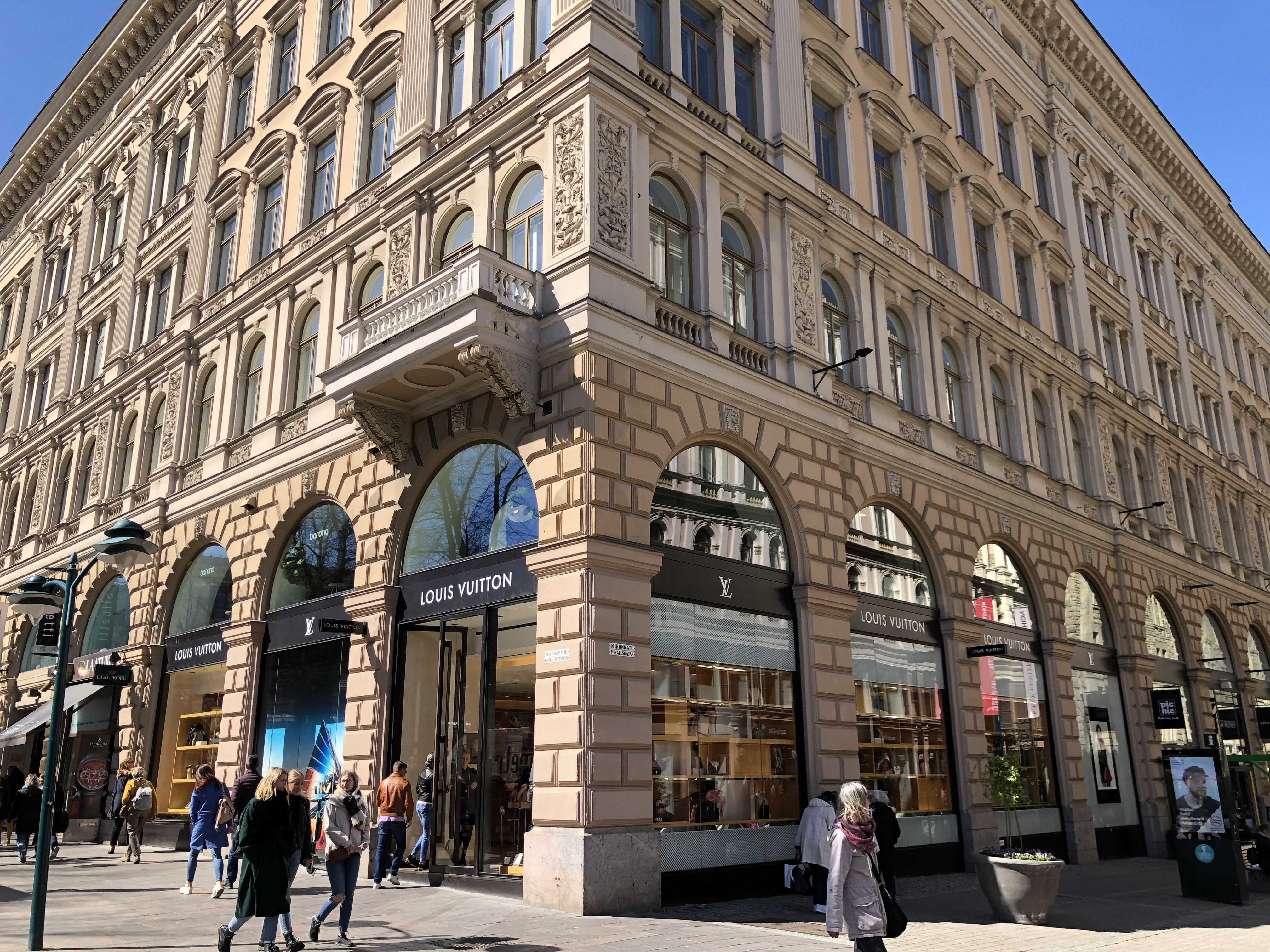 Louis Vuitton store opened in 2008 in Pohjoisesplanadi, Helsinki Finland. Pictured here in May 2019.